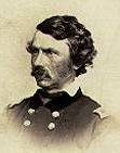 New York Attorney General John Henry Martindale, a brigadier general of volunteers for the Union Army during the Civil War.